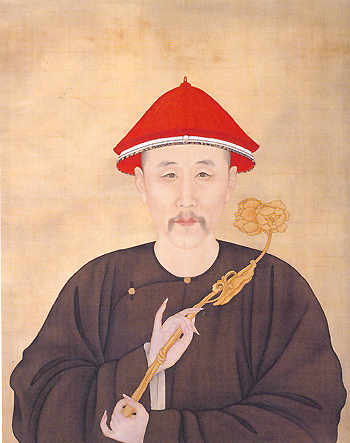 Yongzheng Emperor as Commoner's Dress